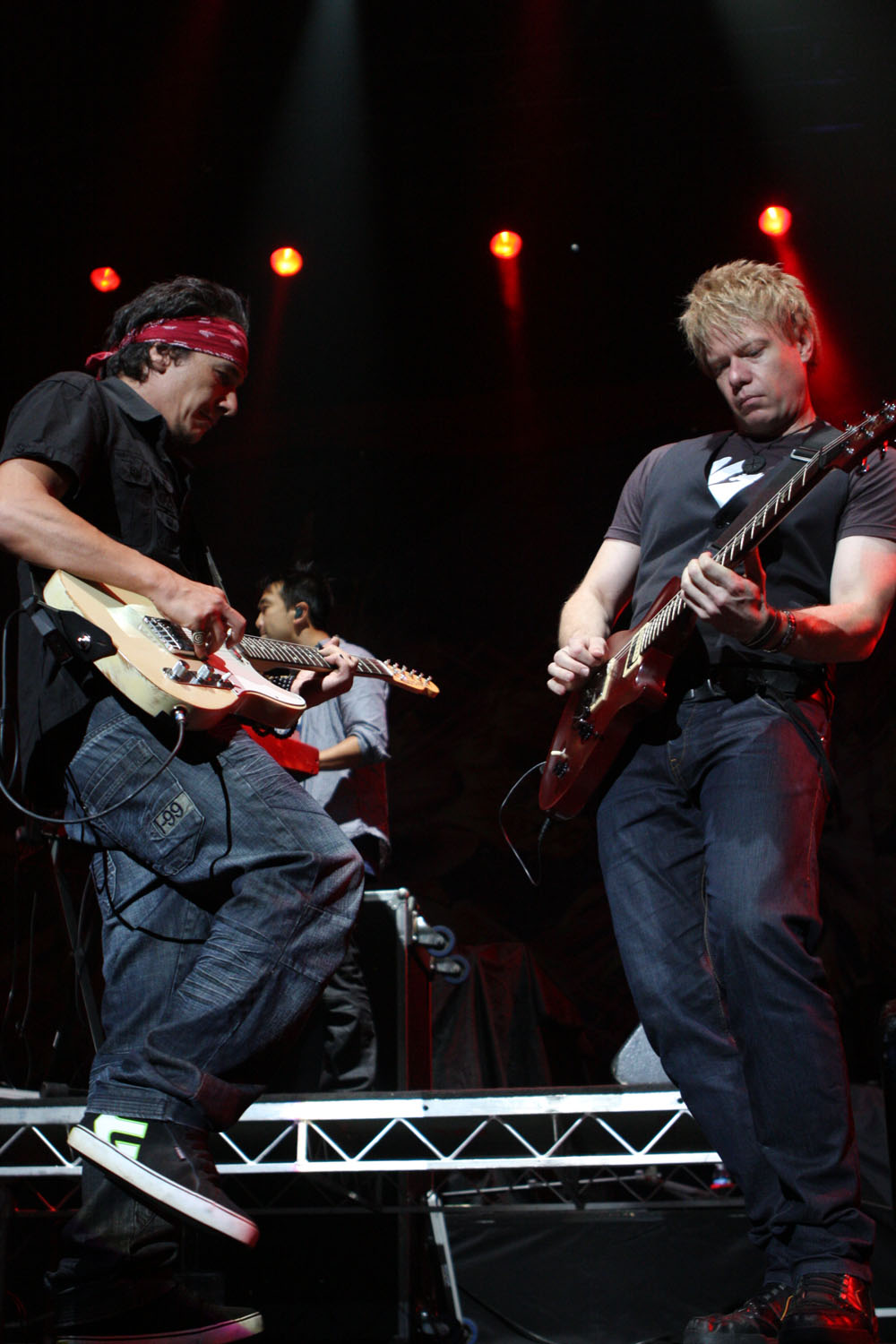 1927 performing at Sydney Entertainment Centre, 17 February 2012. Supporting Roxette's Charm School Tour into Australia.